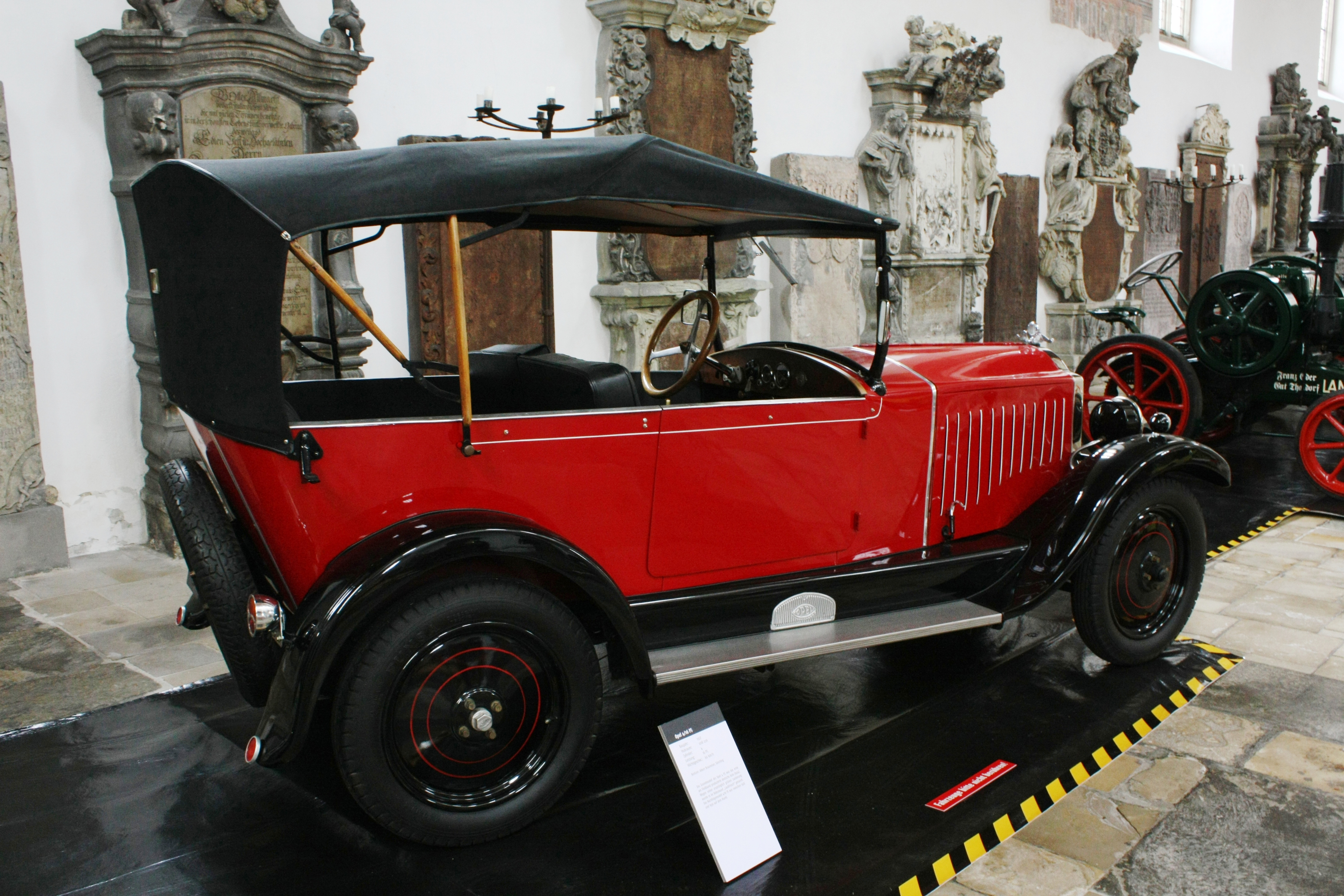 1927 Opel 4/16 PS